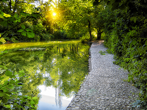 Dimitrovgrad park Penyo Penev